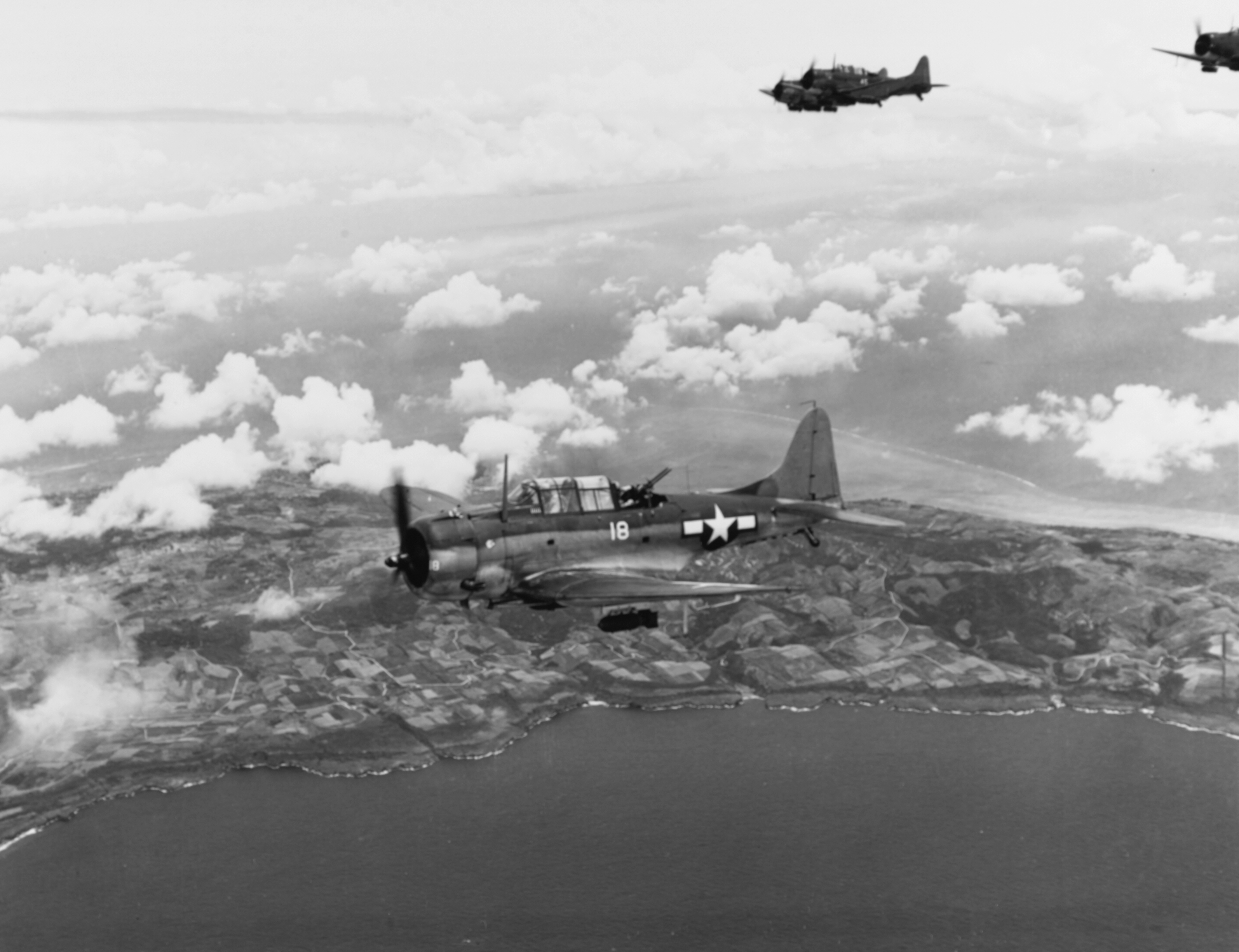 U.S. Navy Douglas SBD-5 Dauntless dive bombers of Bombing Squadron 16 (VB-16), Carrier Air Group 16, from the aircraft carrier USS Lexington (CV-16), over Saipan on their way to bomb Aslito airfield, 15 June 1944.